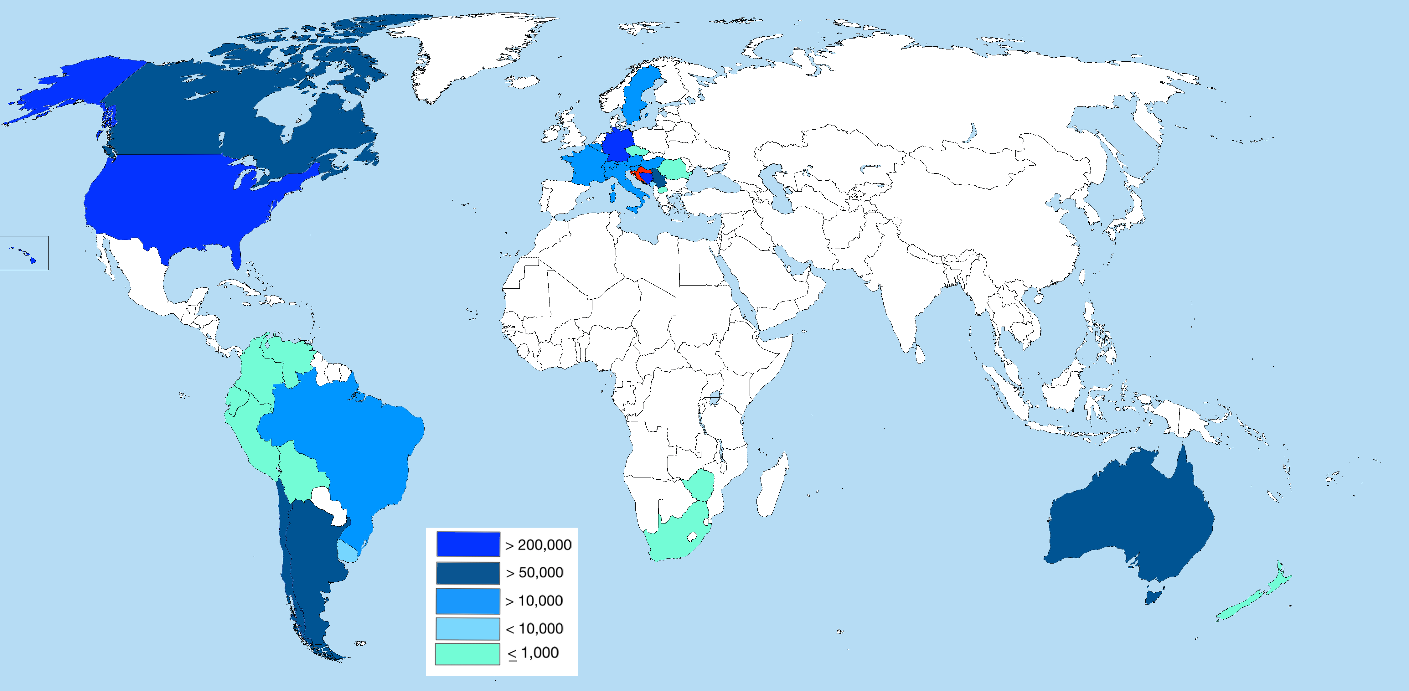 A world map of the diaspora of the Croatian people with colors representing different population numbers